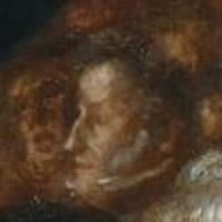 Josiah Conder English Nonconformist clergyman, hymn writer and writer/editor. (17 September 1789 - 27 December 1859), correspondent of Robert Southey and well connected to romantic authors of his day, was editor of the British literary magazine The Eclectic Review